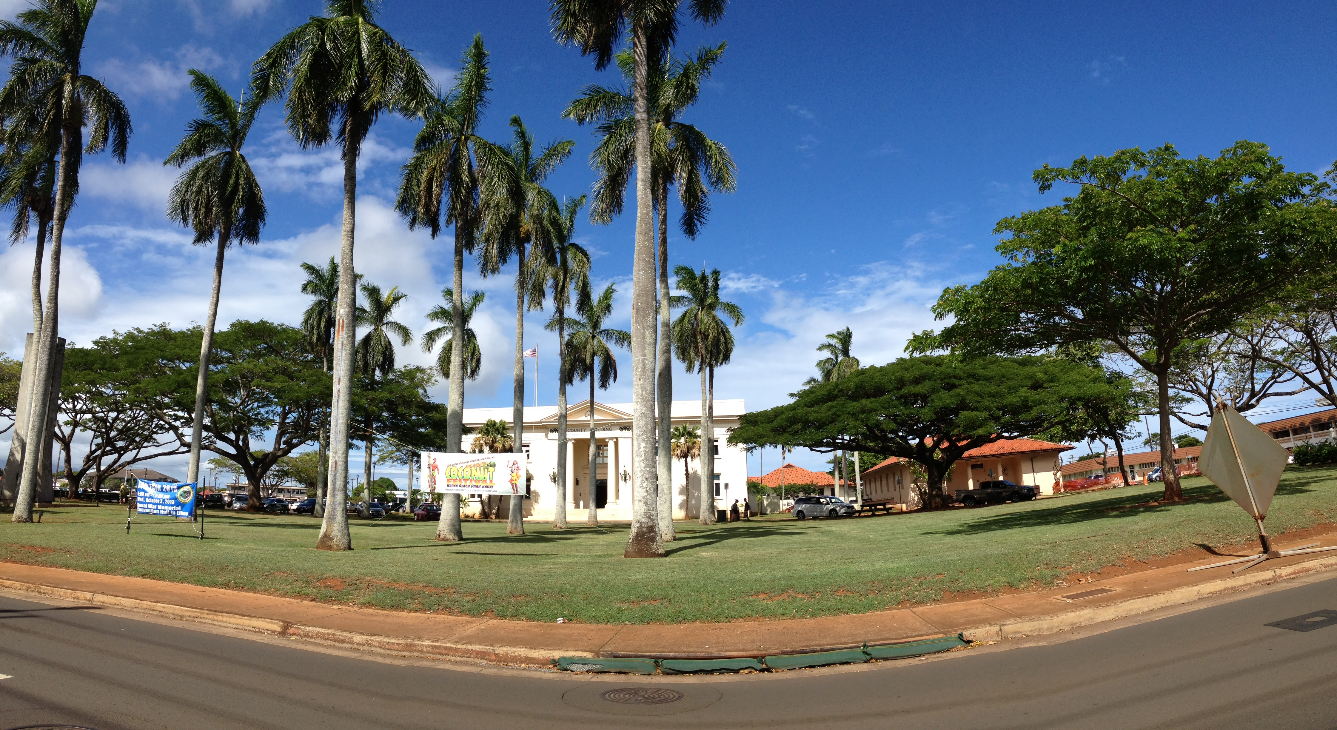 Lihue Civic Center Historic District, Off Hawaii Route 50 Lihue